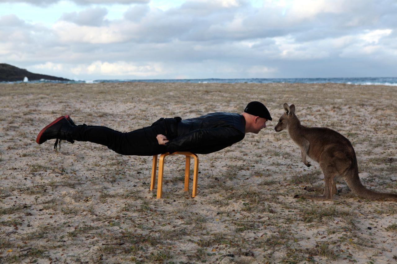 Shaun Gladwell Plank with Kangaroo